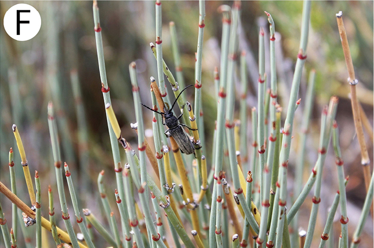 Figure 10; Anoplistes galusoi on Ephedra strobilacea